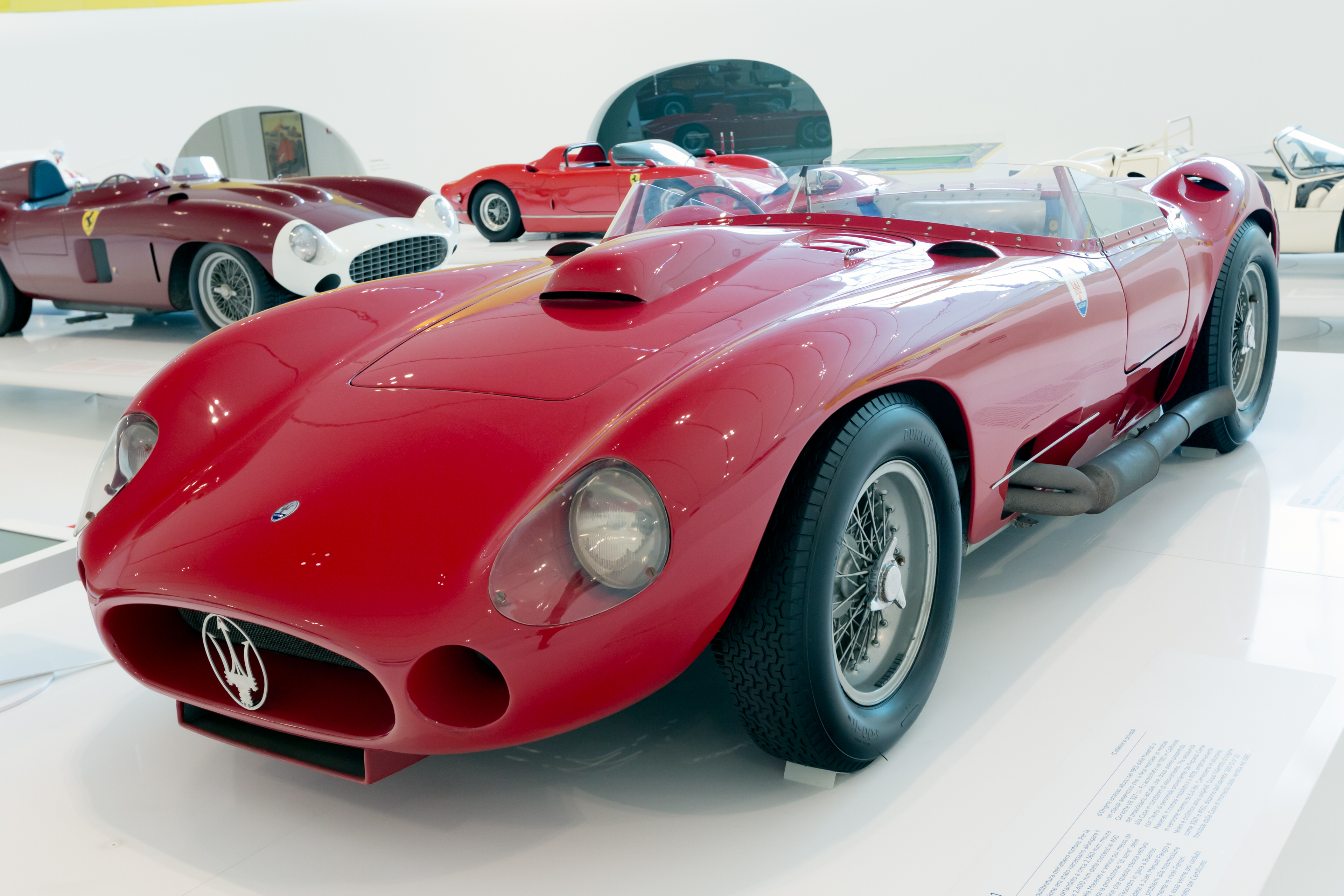 1956 Maserati 450S Prototype (chassis 4501)